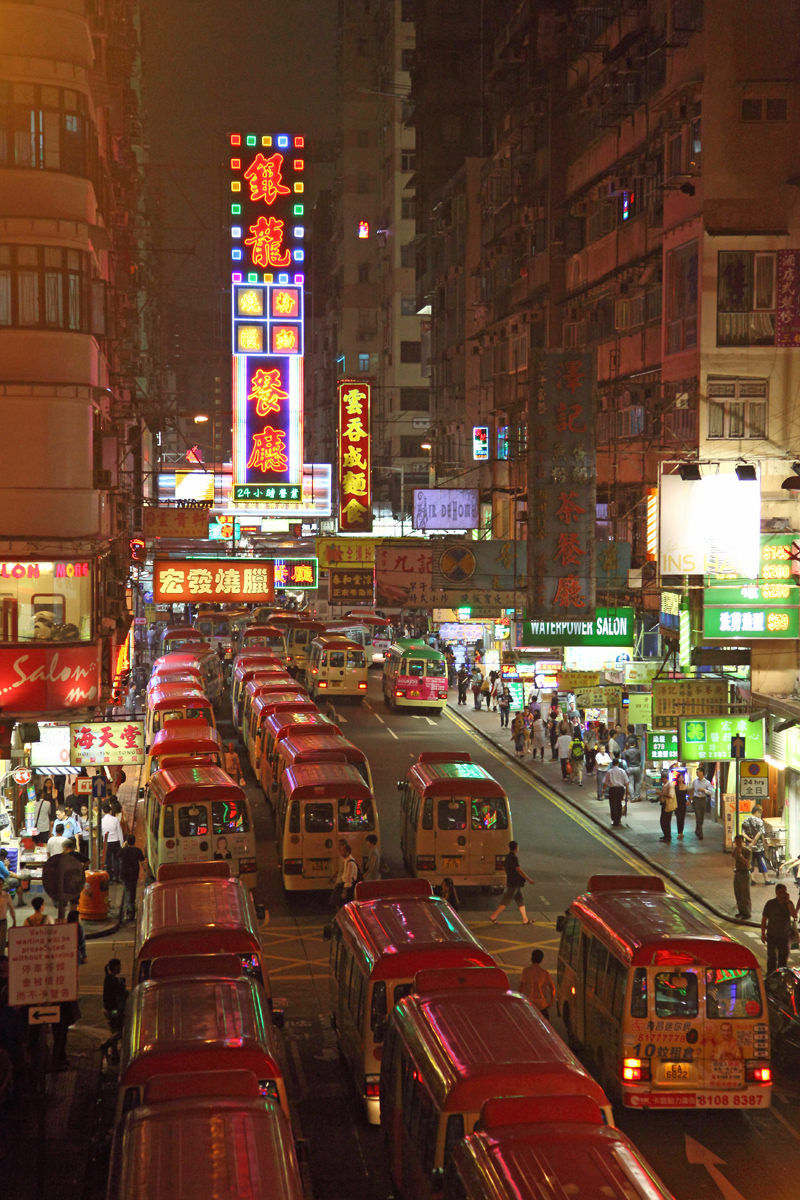 A night shot of Tung Choi Street, Mong Kok, Hong Kong. The first crossing street is Fife Street